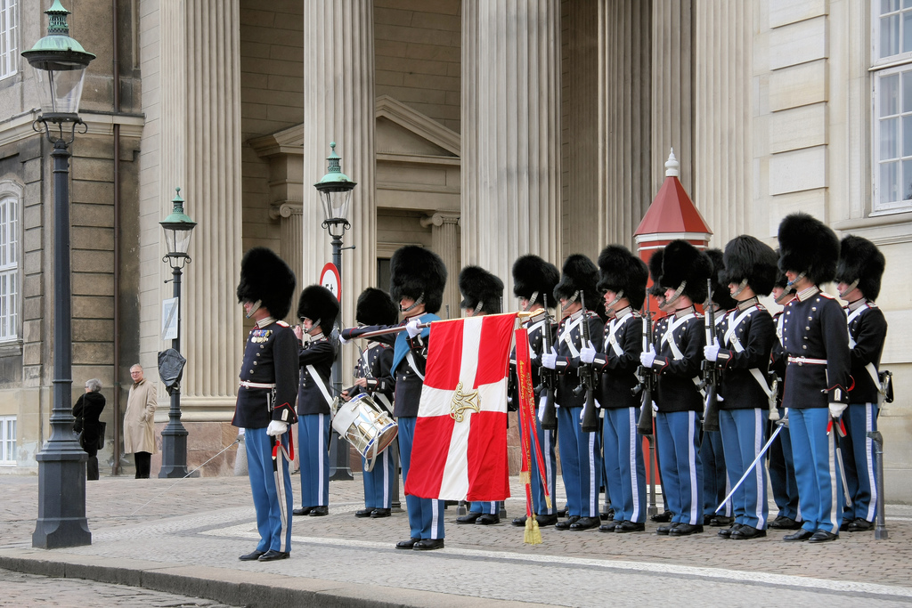 The 2nd shift of the Danish Royal Guards presenting arms at the Changing of the Guard ceremony, Amalienborg, Copenhagen.